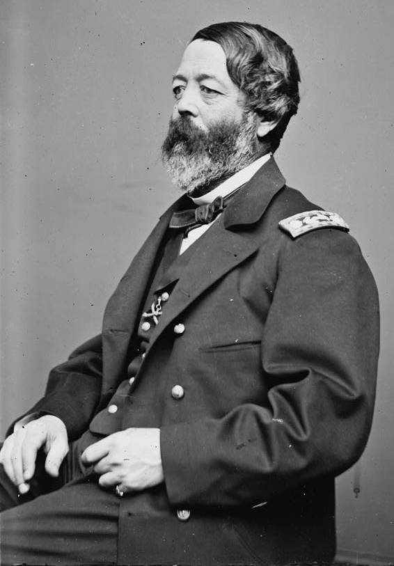 Henry Augustus Wise (1819 – 1869), American writer and United States Navy officer born in Brooklyn, New York.